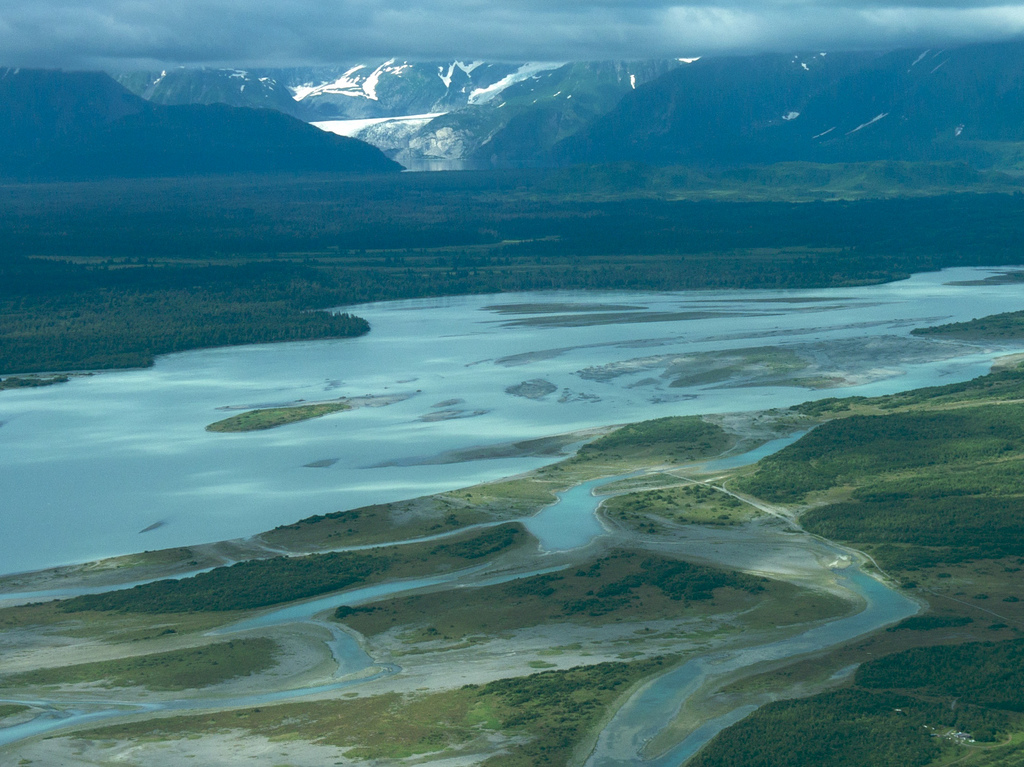 Dry bay at the Pacific coast and Alsek River